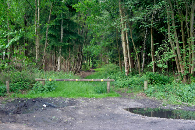 Stapleford Woods A Forestry Commission mixed woodland, Stapleford Woods are famous for a large number of exotic trees and rhododendrons. There are many surfaced trails and woodland walks throughout and a large carpark off Coddington Lane, the road that goes right through the middle of the Wood.